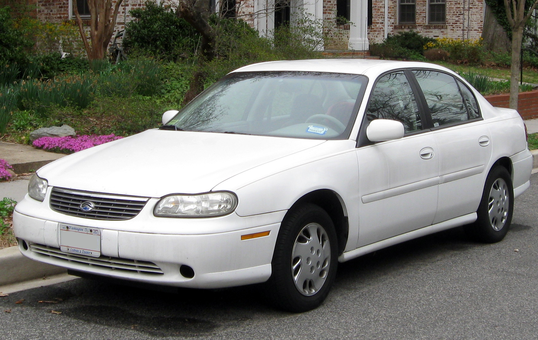 1997-1999 Chevrolet Malibu photographed in Washington, D.C., USA.